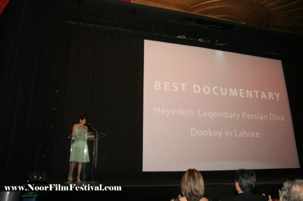 "Hayedeh: Legendary Persian Diva" was nominated as the "best documentary" at 3rd Noor Filme Festival in Los Angeles. May 2009.